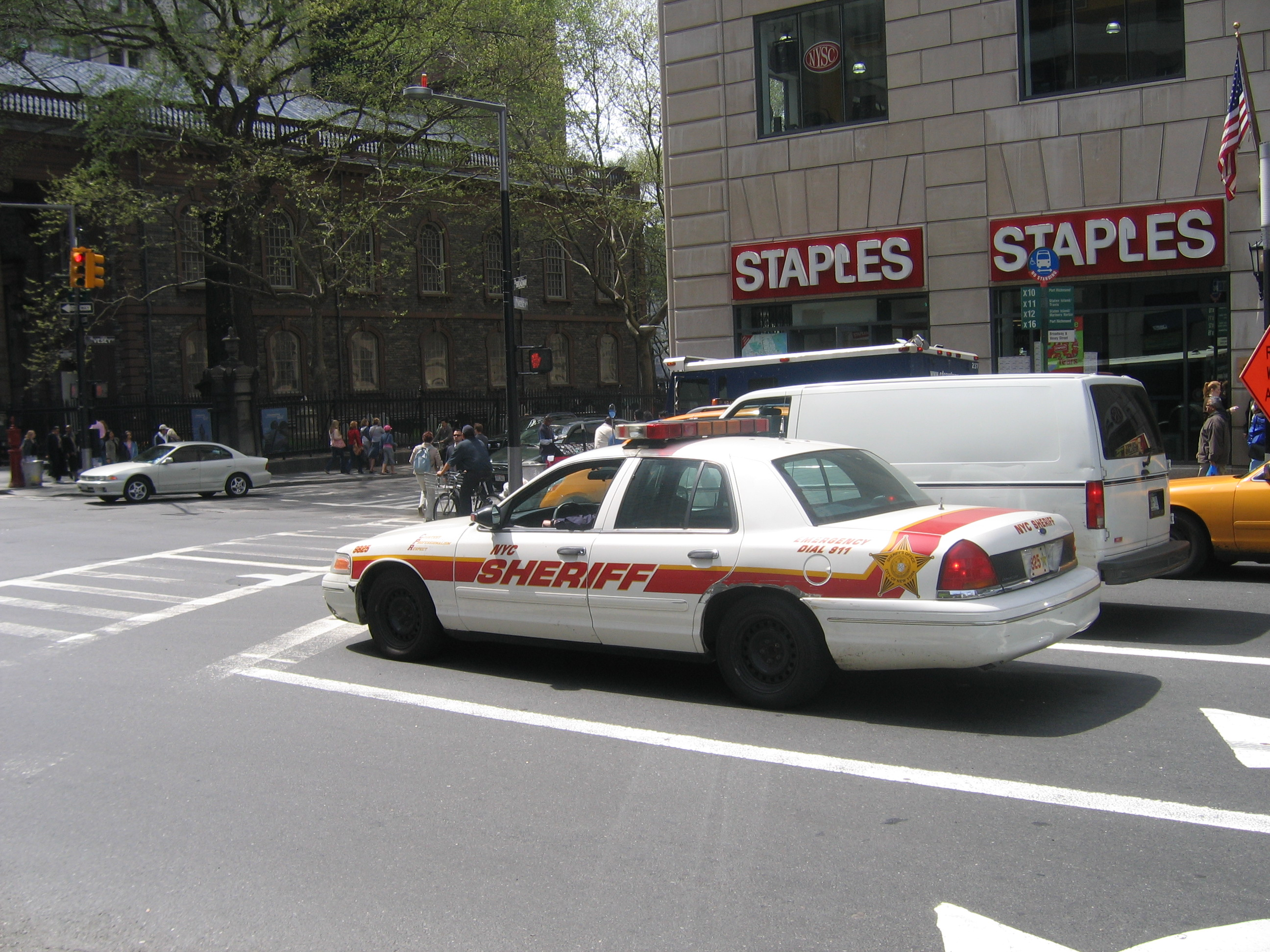 Sheriff car in NYC, no NYPD